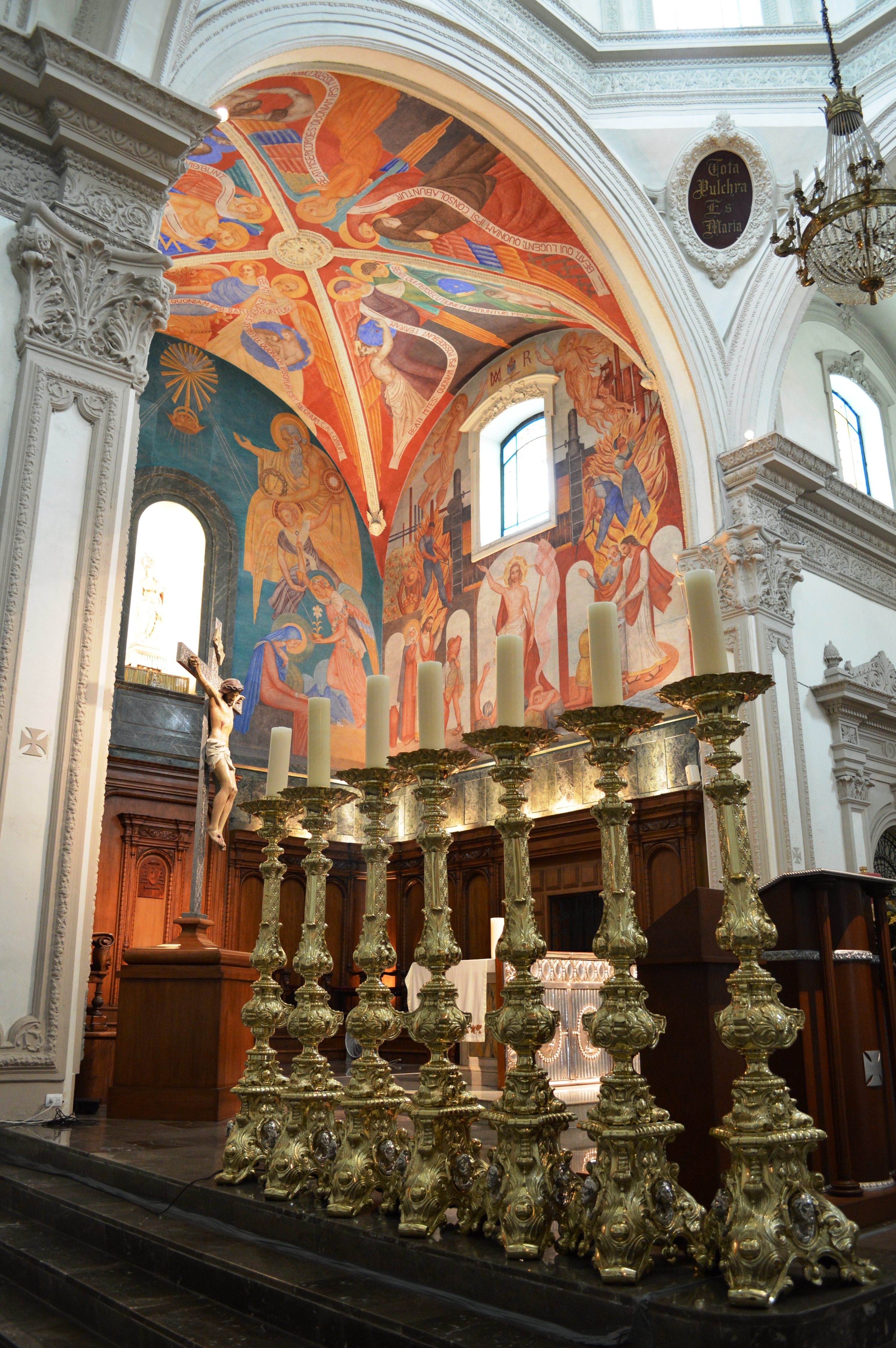 Main altar area of the cathedral of Monterrey, Mexico